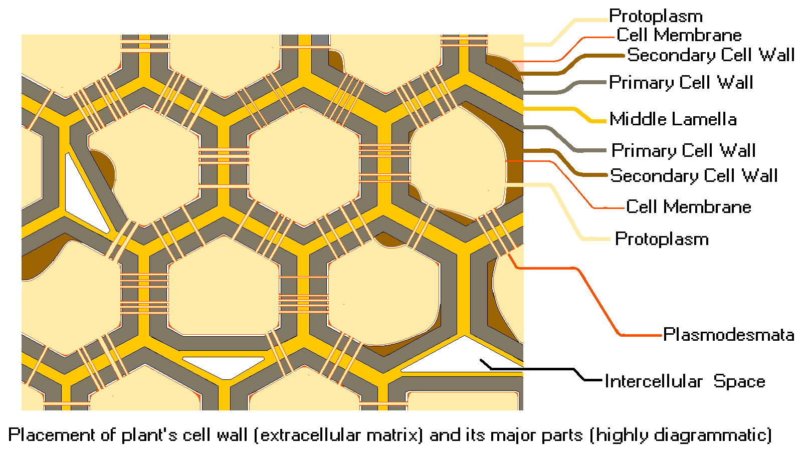 Cell Wall or Extracellular matrix in plant- its different layer and their placement.